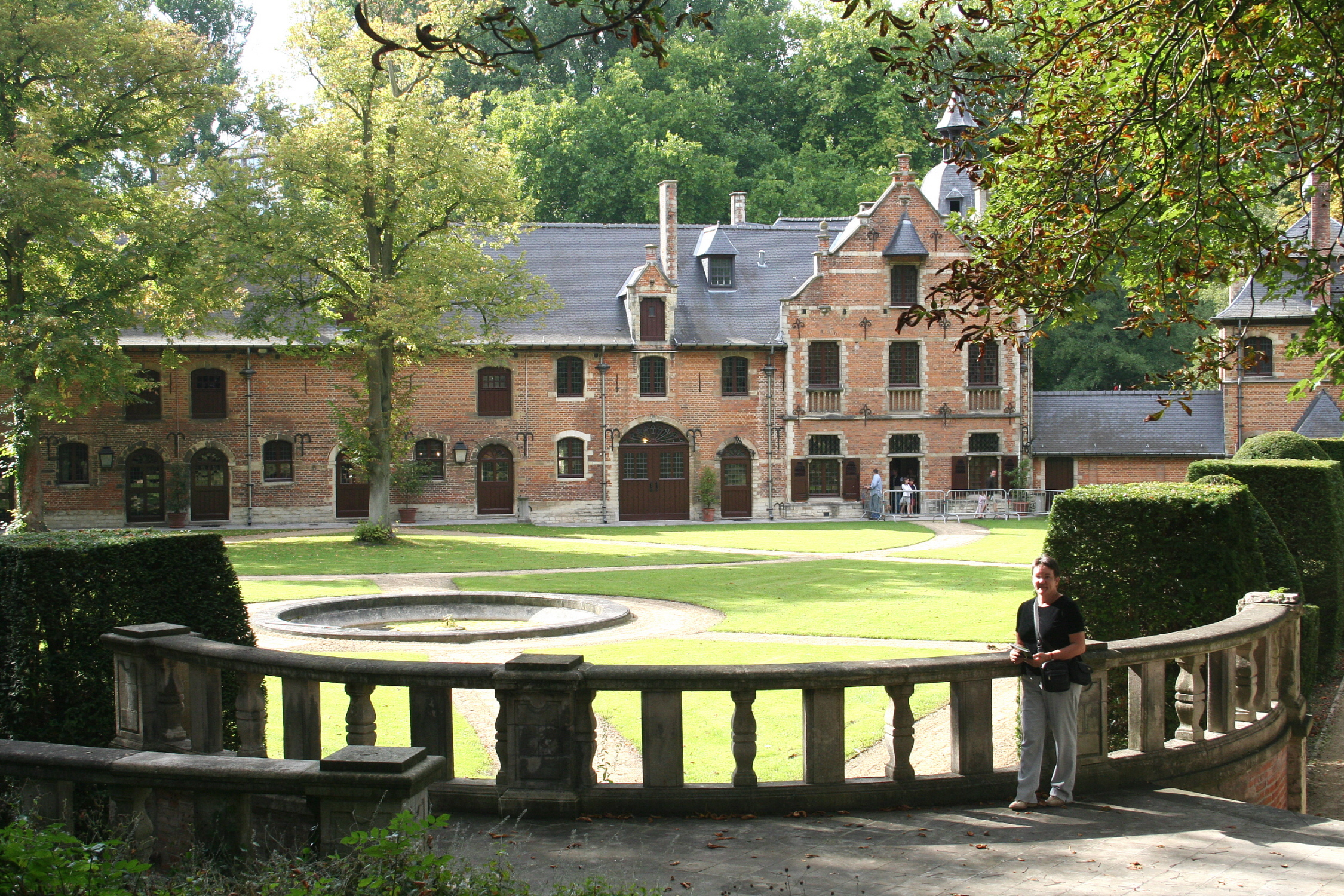 Auderghem (Belgium), the Val Duchesse « priory » .